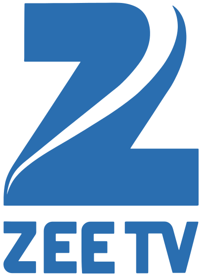 This is the station Logo of Zee TV since 2014.